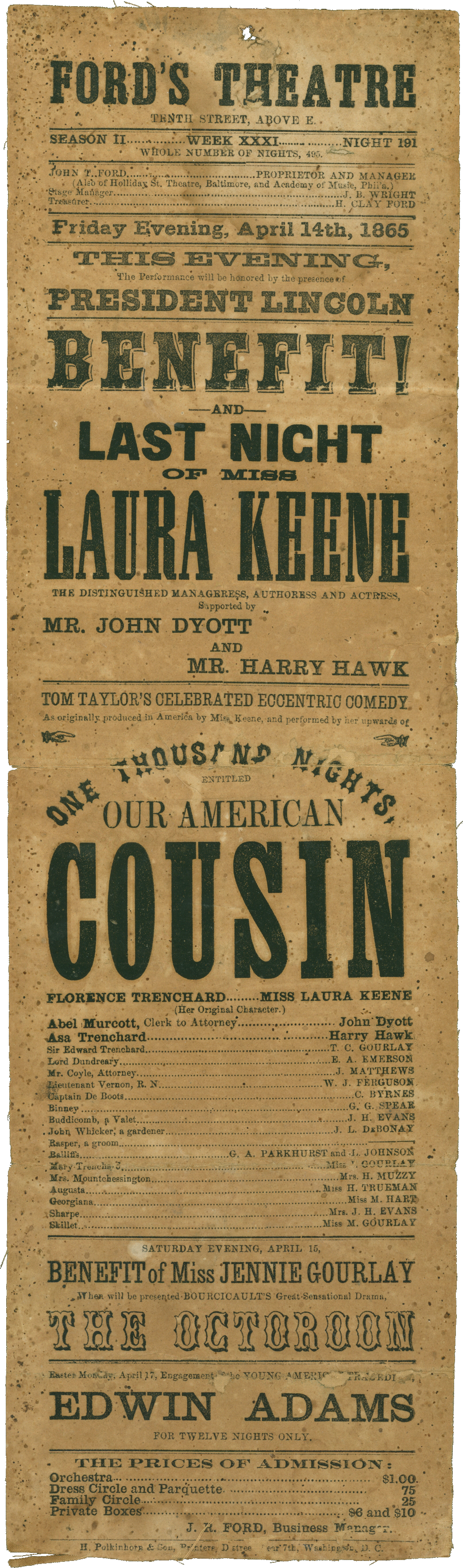 A playbill for Our American Cousin, the play Lincoln attended at Fords Theatre on the evening he was assassinated. The playbill was reproduced in various versions with added material beginning almost immediately follow the assassination, and as such, this may be an original from the night of the play, or an early souvenir reproduction.